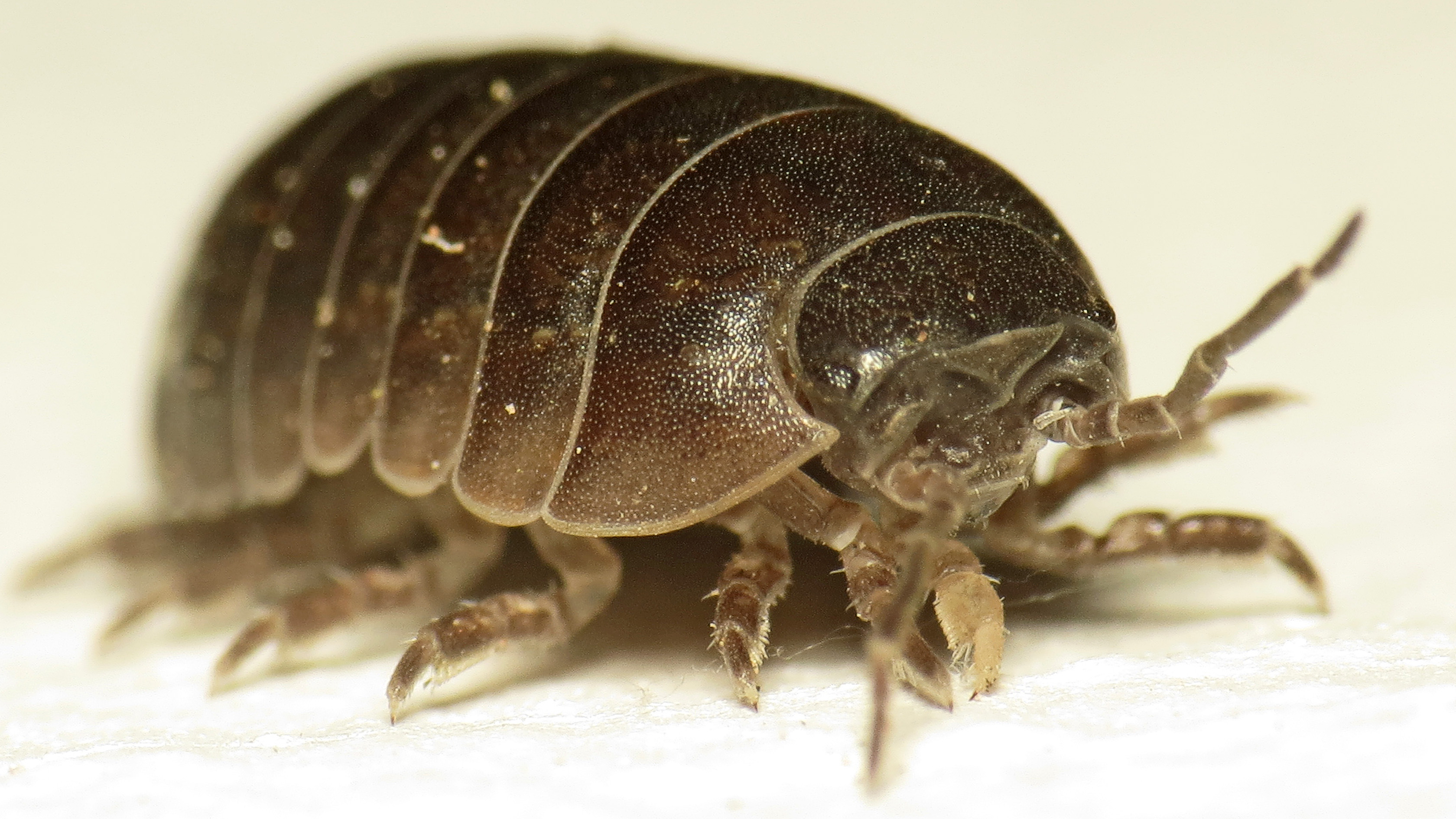 Photographed on 3 May 2015 in the porch of my house (Ipswich, VC25 East Suffolk, TM166450).